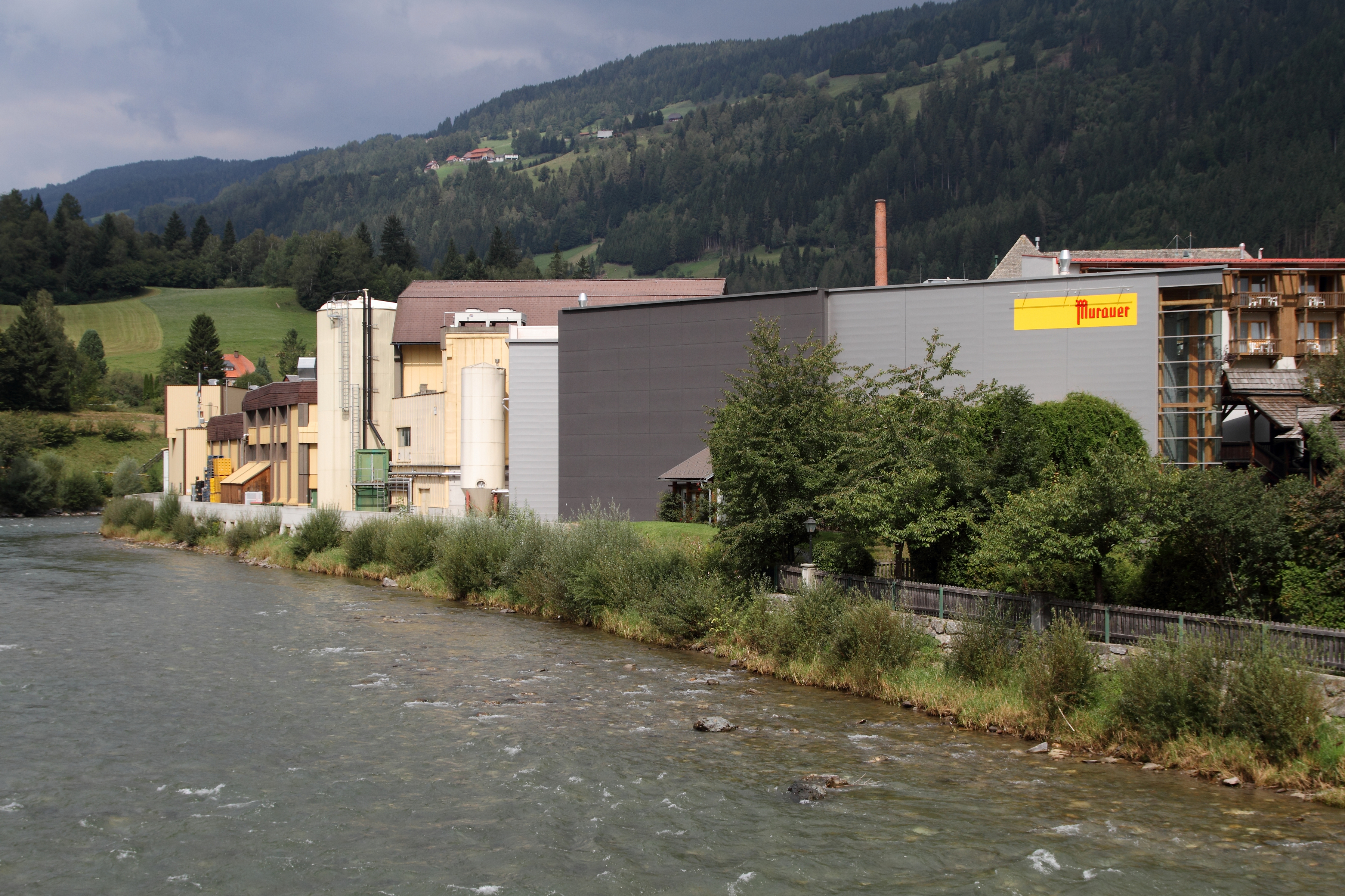 Brewery Murau seen from Mur river